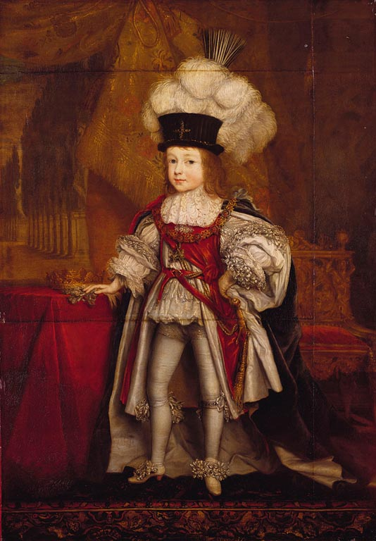 Shown standing in full-length he wears the elaborate robes and plumed hat of the Order of the Garter and rests his right hand on a covered table on which sits the royal ducal coronet.